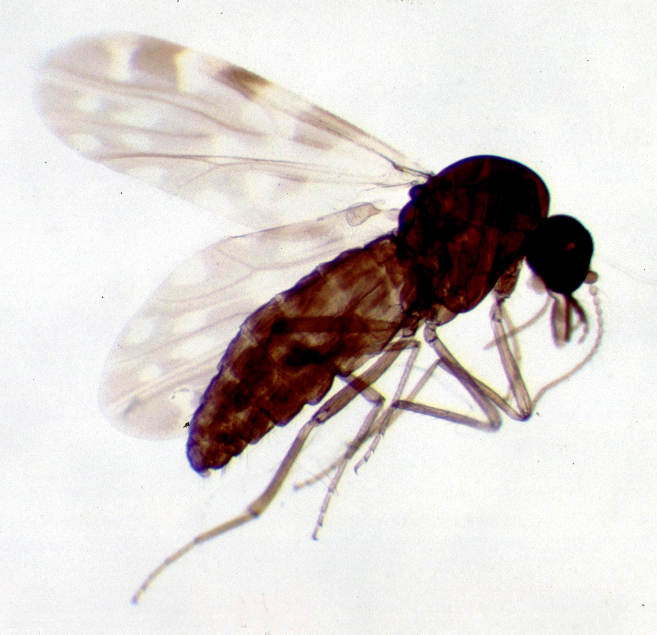 Culicoides cornutus adult biting-midge, showing typical patterned wings and short piercing mouthparts.